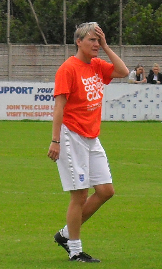 Kaz Walker in August 2015